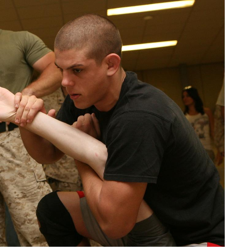 American mixed martial arts fighter Joe Lauzon. Cropped from original image image= here.